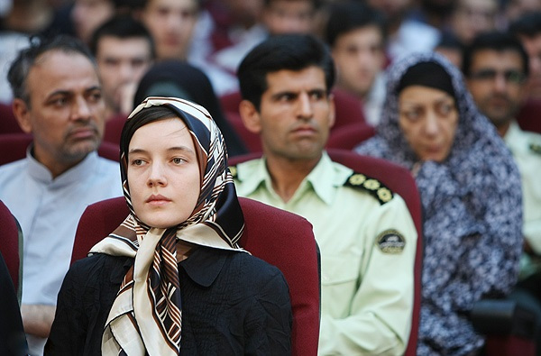 دومین جلسه دادگاه متهمان حوادث انتخابات سال 1388